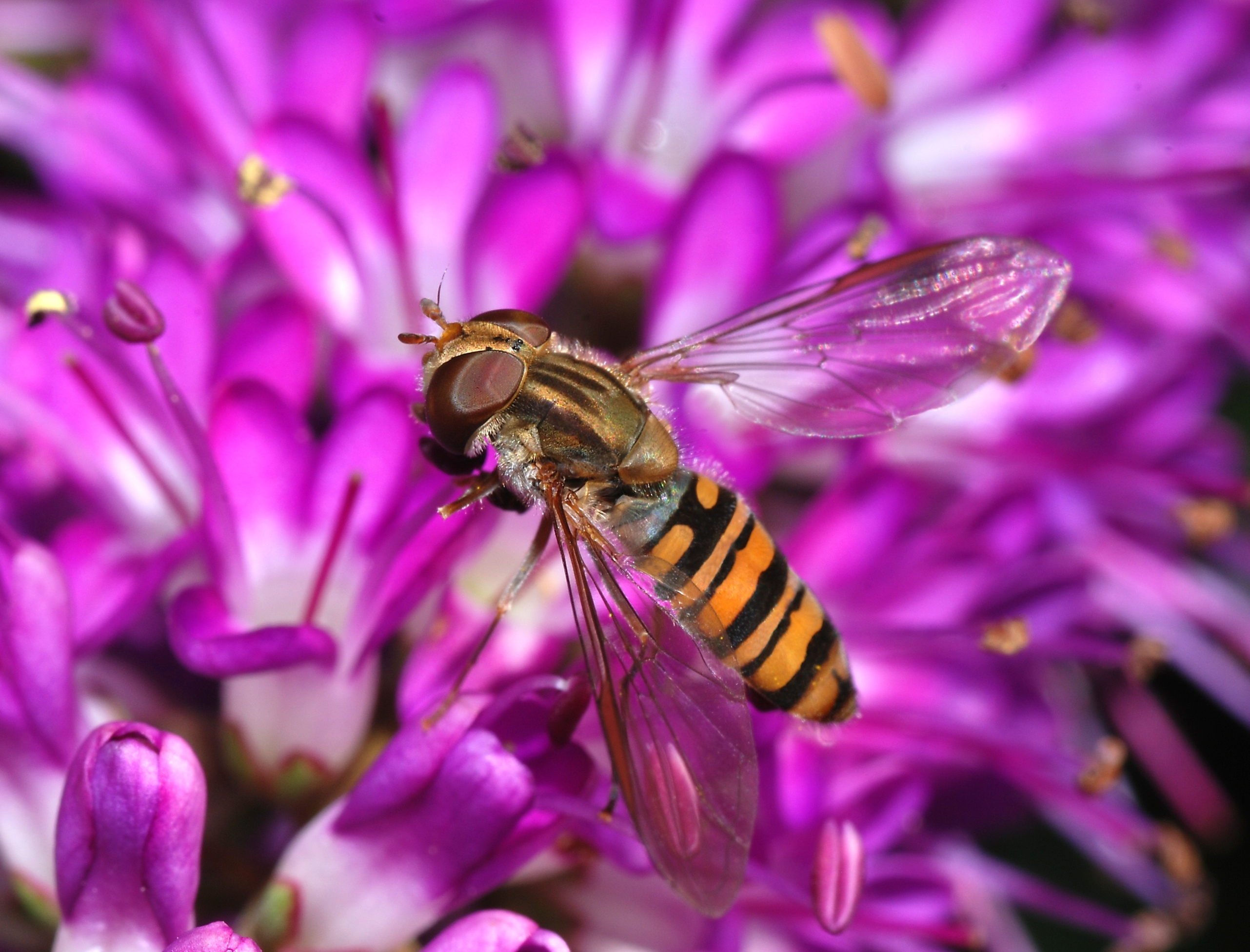 A hoverfly (Episyrphus balteatus) on a Hebe sp. flower